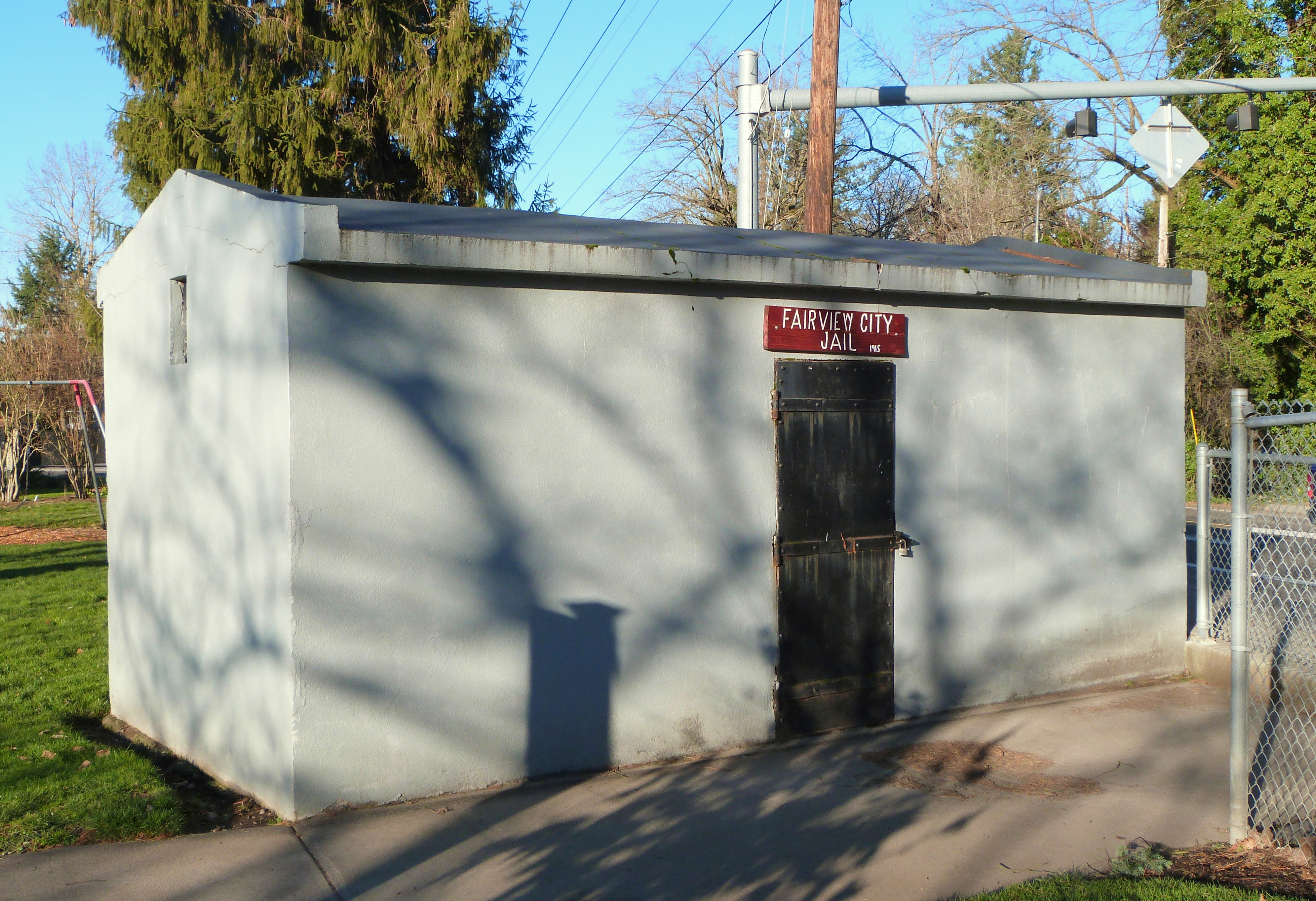 The historic Fairview City Jail (built 1915), located in Ne-cha-co-kee Park at 120 1st Street in Fairview, Oregon, United States, is listed on the US National Register of Historic Places.